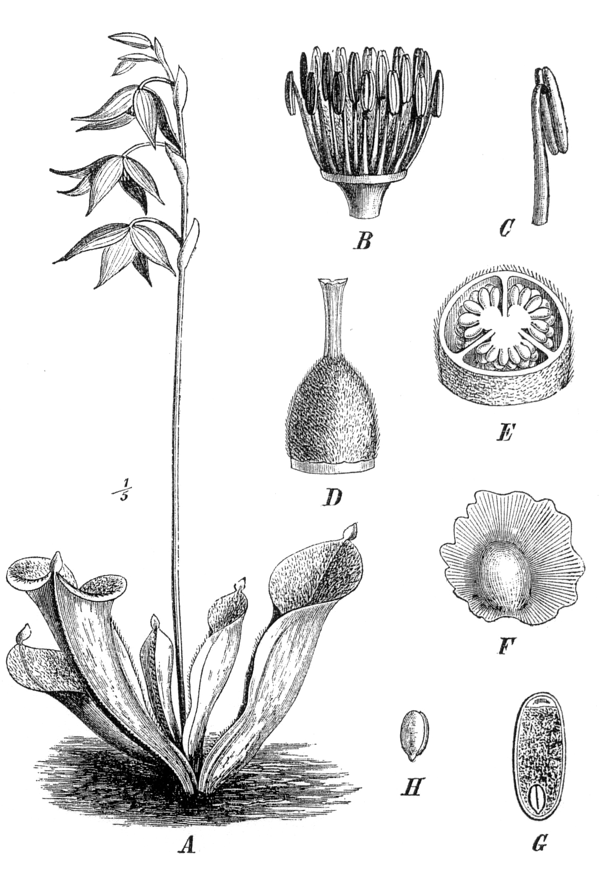 "Heliamphora nutans Benth. A Entire Plant. B Androecium. C Stamen. D Pistil. E Transverse section of the ovary. F Seed, with the testa. G Vertical section of the seed. H Embryo."